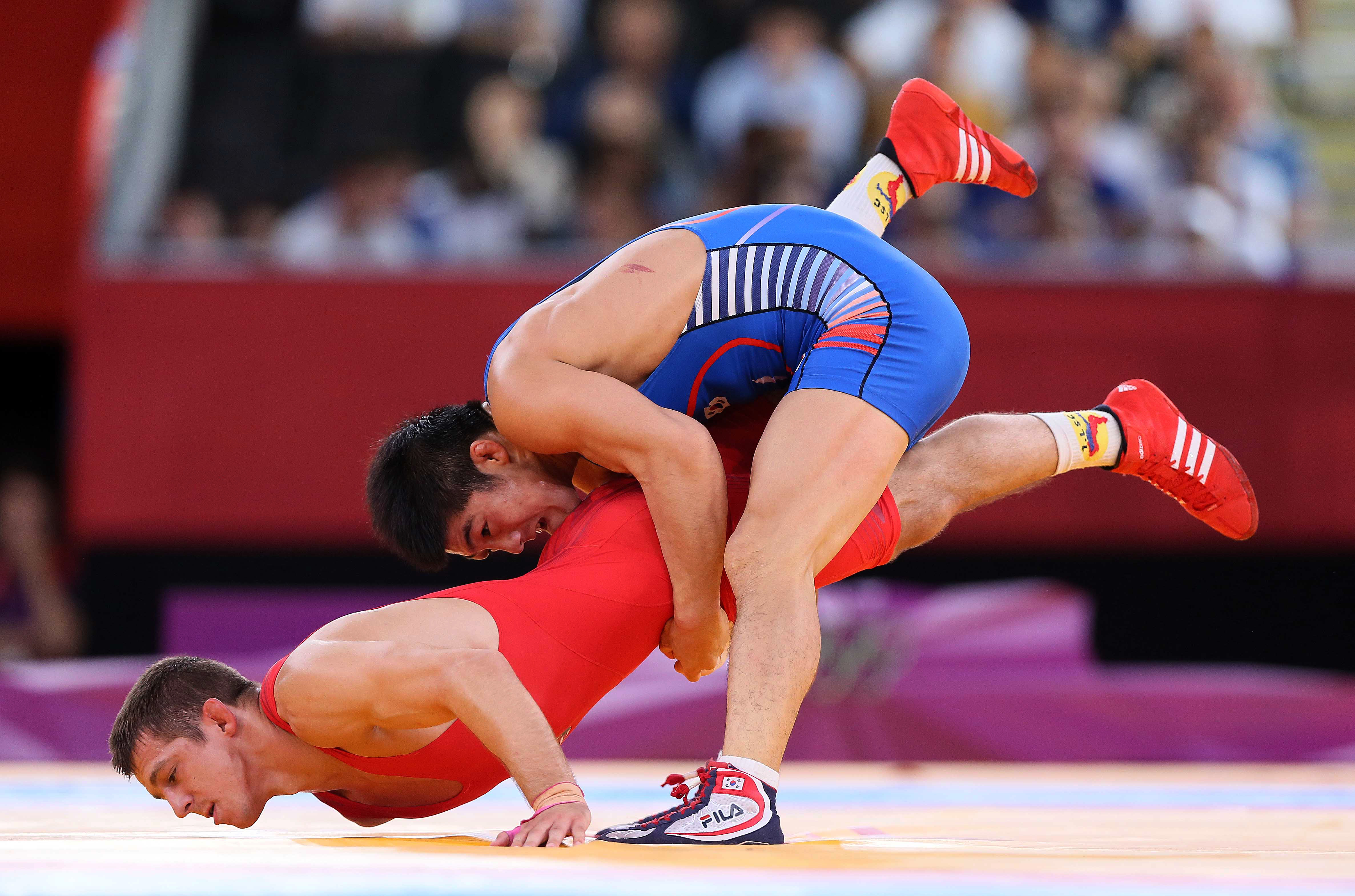 2012 London Olympic Games Korean Wresting Kim Hywonwoo won gold medal in the men's 66kg Greco-Roman. 2012.08.08. Photo by Korean Olympic Committee Ministry of Culture, Sports and Tourism Korean Culture and Information Service 2012 런던 올림픽 남자 레슬링 그레코로만형 66kg 김현우 금메달 획득 사진제공 - 대한체육회 문화체육관광부 해외문화홍보원